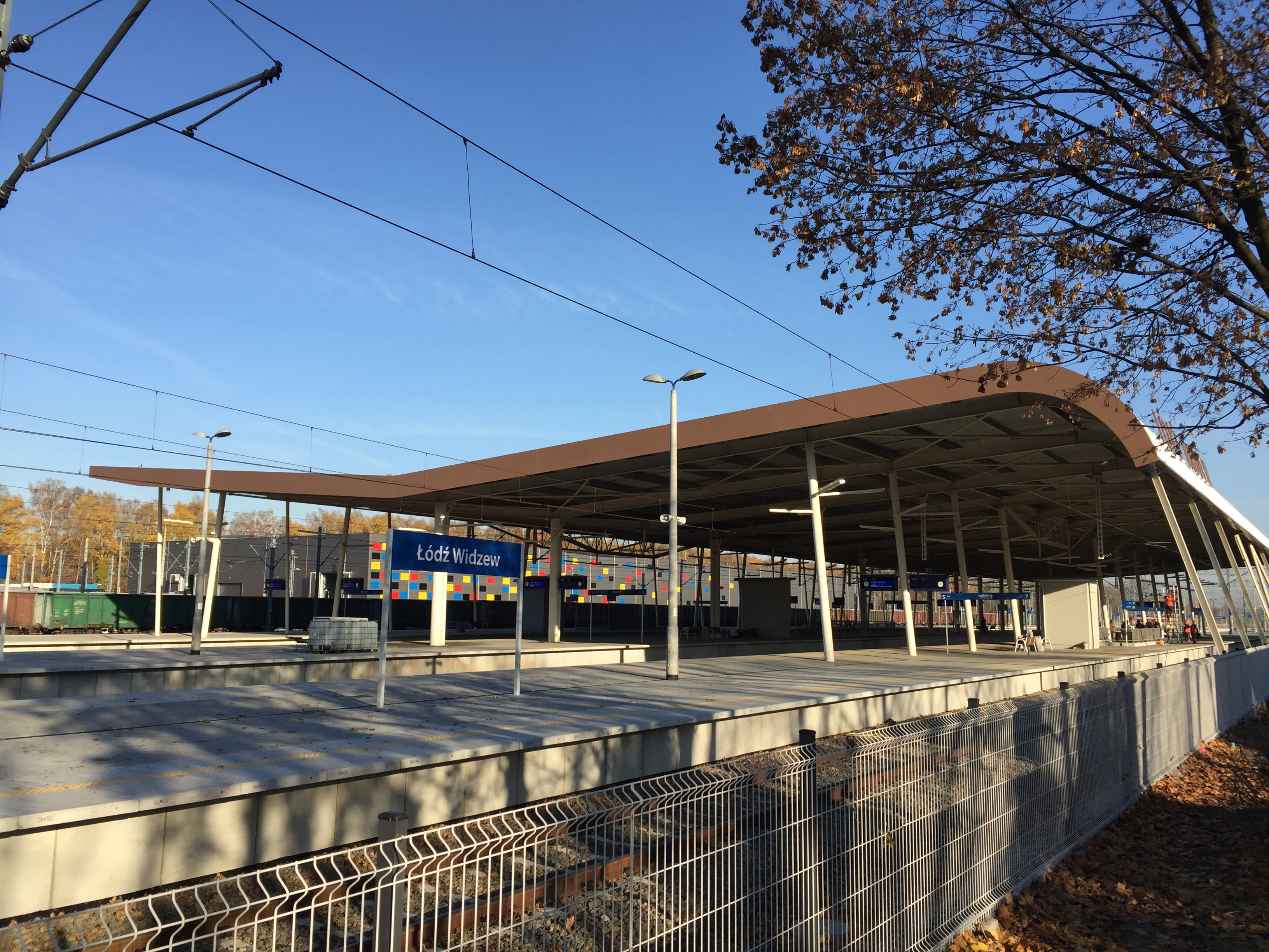 Łódź Widzew Railway Station platforms, looking north east.